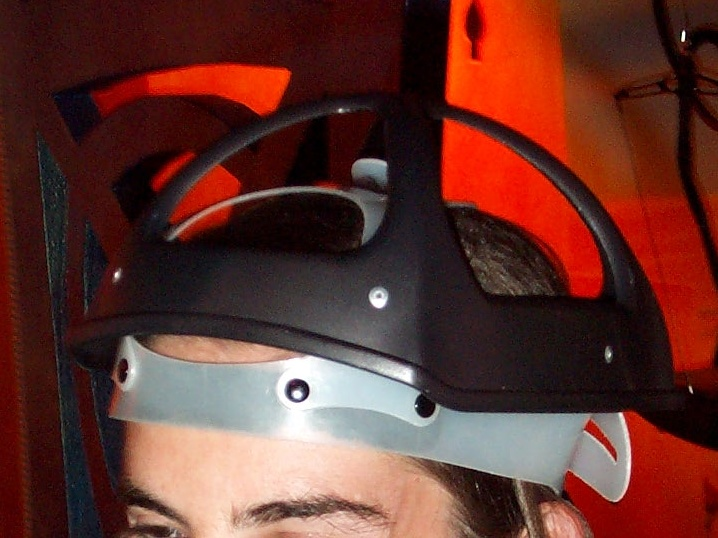 The inner mounting "cap" for the head-mounted display of Aladdin's Magic Carpet Ride at DisneyQuest. Users would don this cap and adjust it while waiting, and then snap the HMD onto the cap.